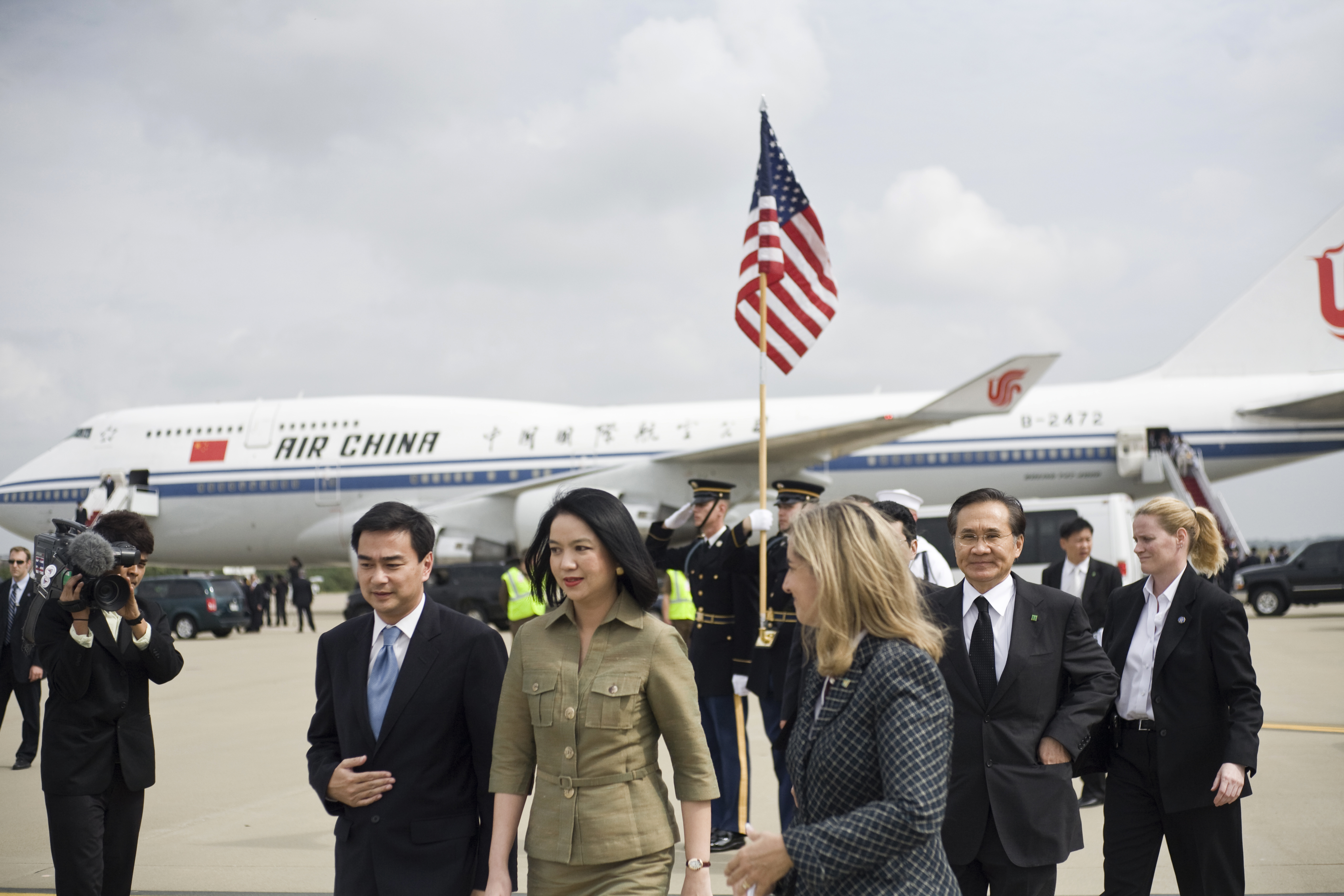 Abhisit Vejjajiva and Pimpen Vejjajiva at Pittsburgh International Airport นายกรัฐมนตรี ภริยาและคณะ ณ​ สนามบิน Pittsburgh นายกรัฐมนตรี เข้าร่วมการประชุมสมัชชาสหประชาชาติ สมัยสามัญ ครั้งที่ 64 และการประชุม Pittsburgh Summit ณ นครนิวยอร์ก สหรัฐอเมริกา วันที่ 24กันยายน 2552 (The Official Site of The Prime Minister of Thailand Photo by พีรพัฒน์ วิมลรังครัตน์)